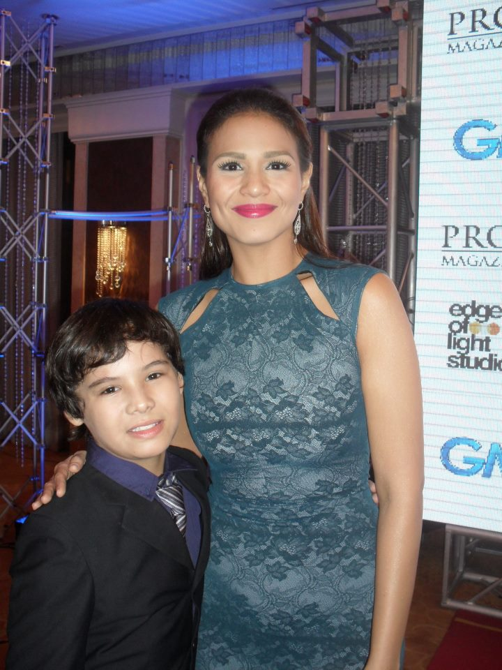 Jacob Clayton and Isa Calsado